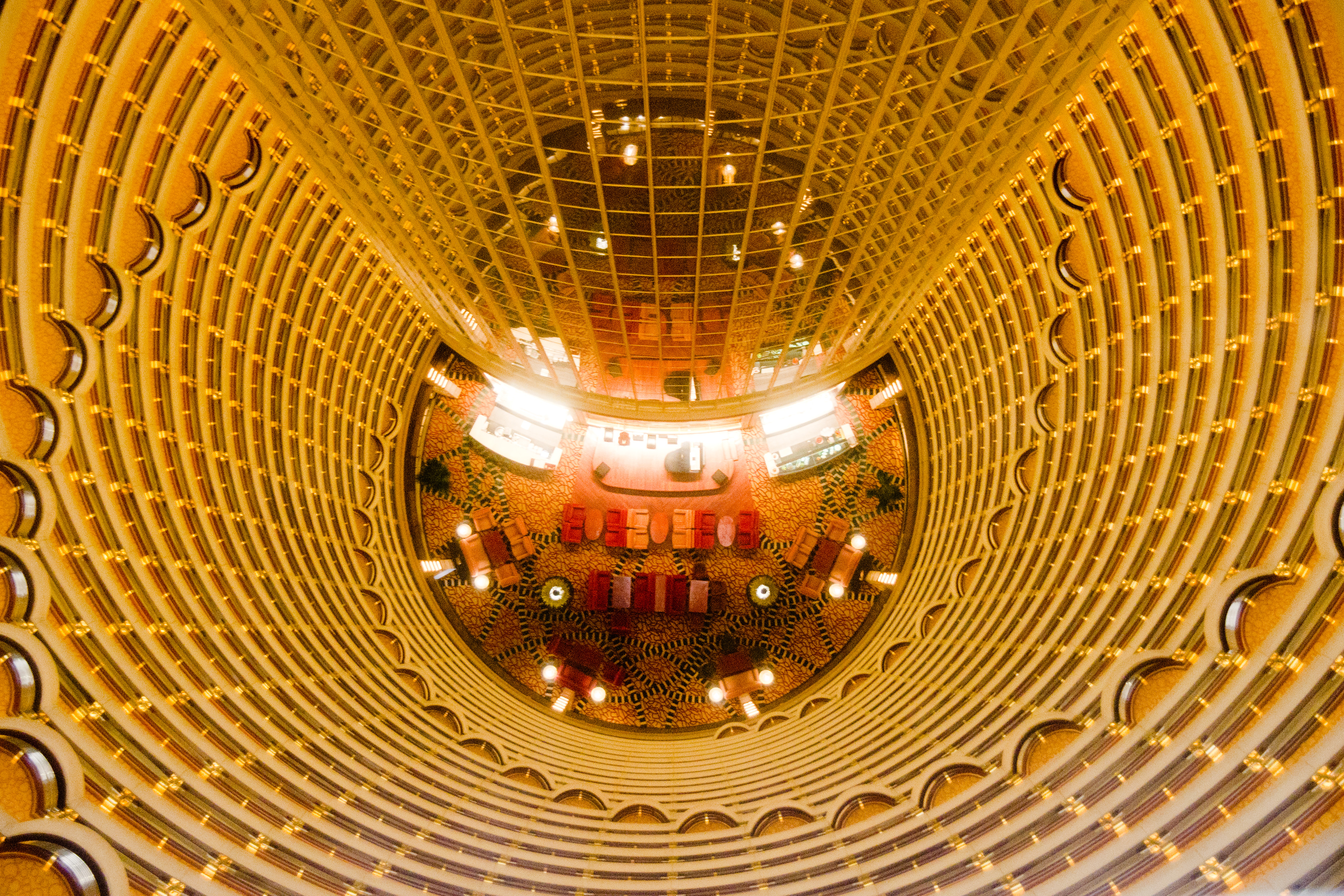 A view down the core of the JinMao tower from the observation deck on the 88th floor. The hotel lobby is visible at the bottom.